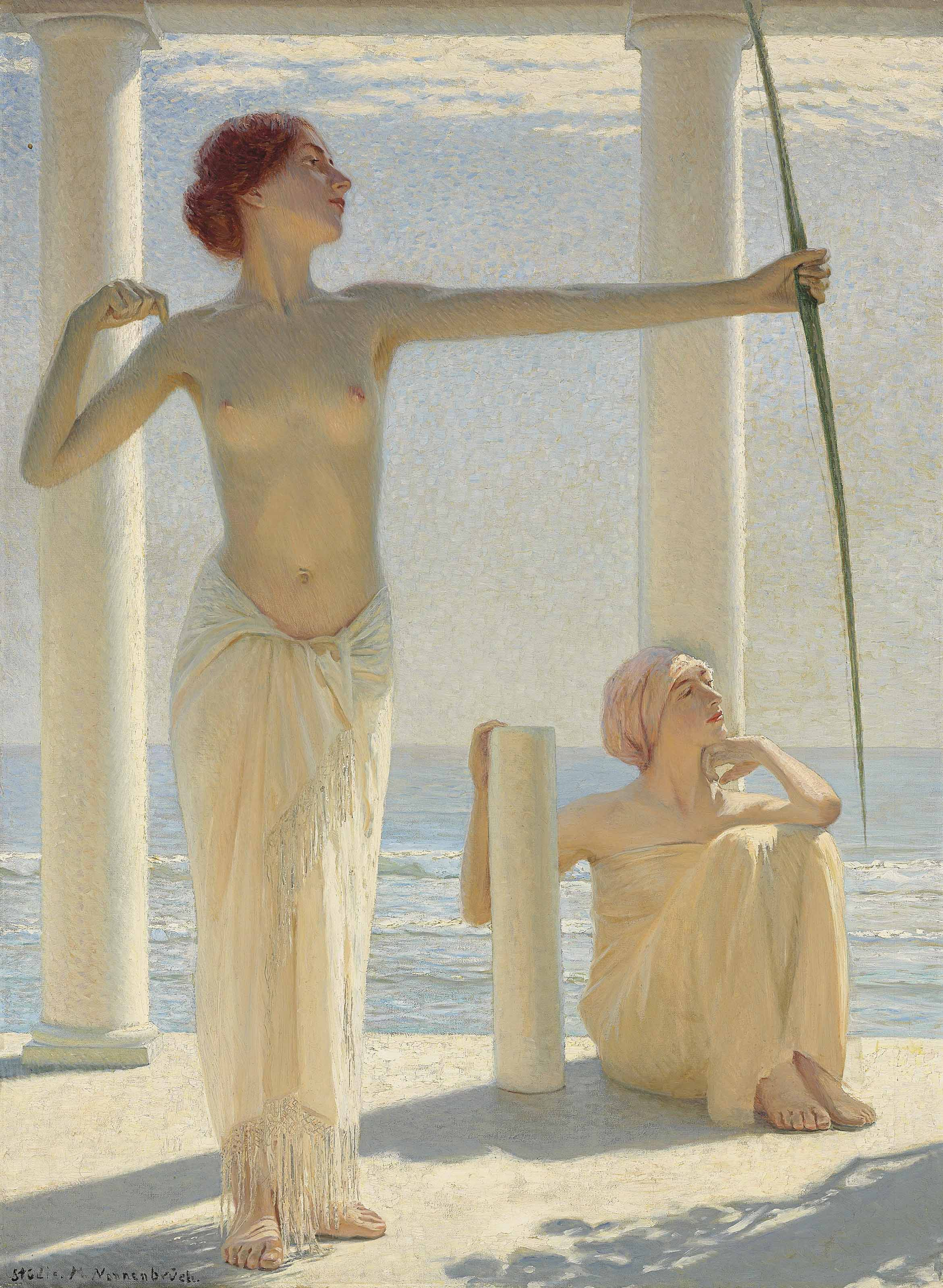 Max Nonnenbruch, The Archer, oil on canvas, 43 ¼ × 31 ¾ in